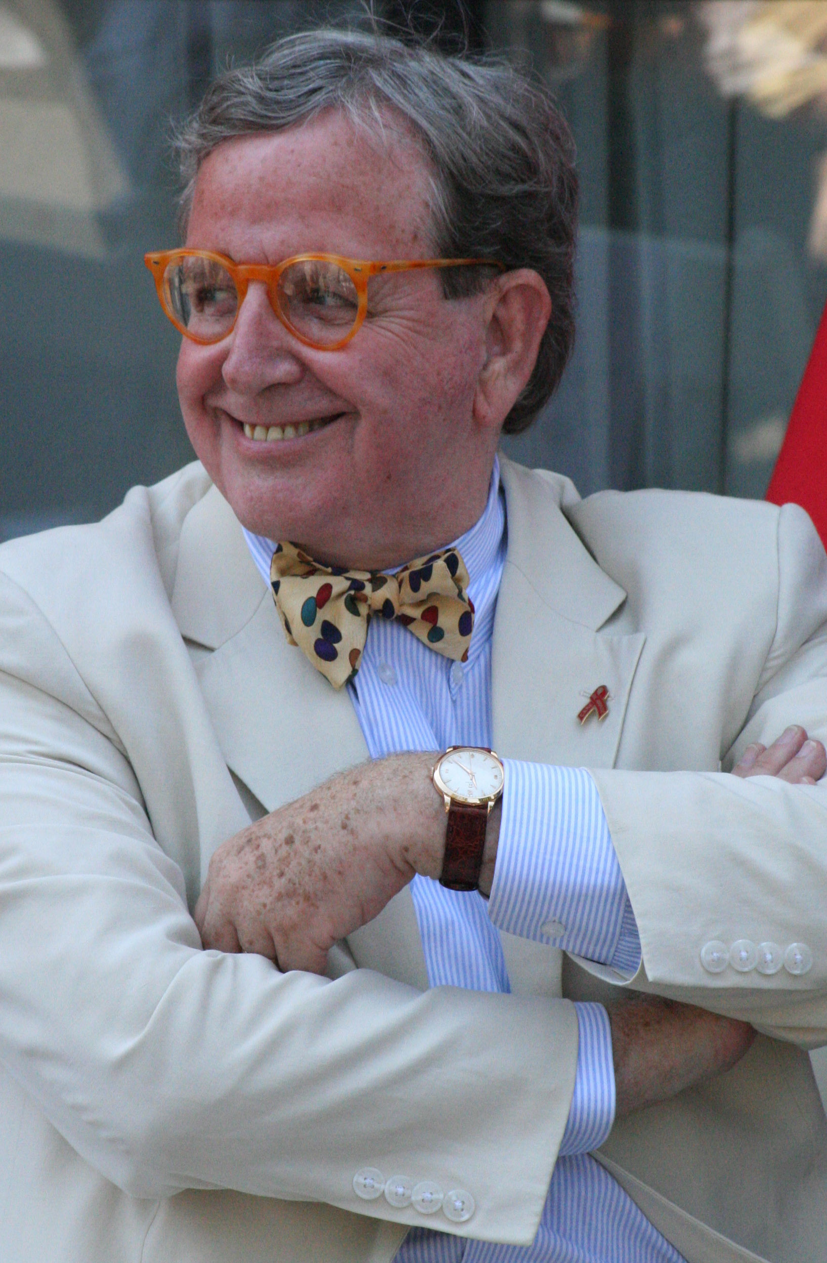 Honorable Jim Graham, Ward One City Councilman, at the dedication of the AIDS Memorial at the Dupont Circle Metro, Q St. entrance